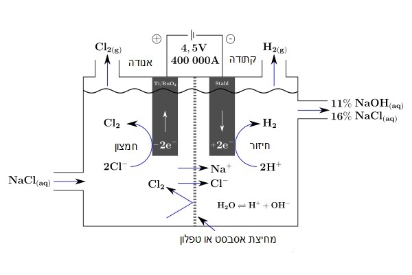 Diaphragm cell